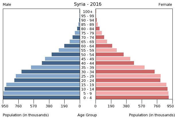 The population pyramid of Syria illustrates the age and sex structure of population and may provide insights about political and social stability, as well as economic development. The population is distributed along the horizontal axis, with males shown on the left and females on the right. The male and female populations are broken down into 5-year age groups represented as horizontal bars along the vertical axis, with the youngest age groups at the bottom and the oldest at the top. The shape of the population pyramid gradually evolves over time based on fertility, mortality, and international migration trends.